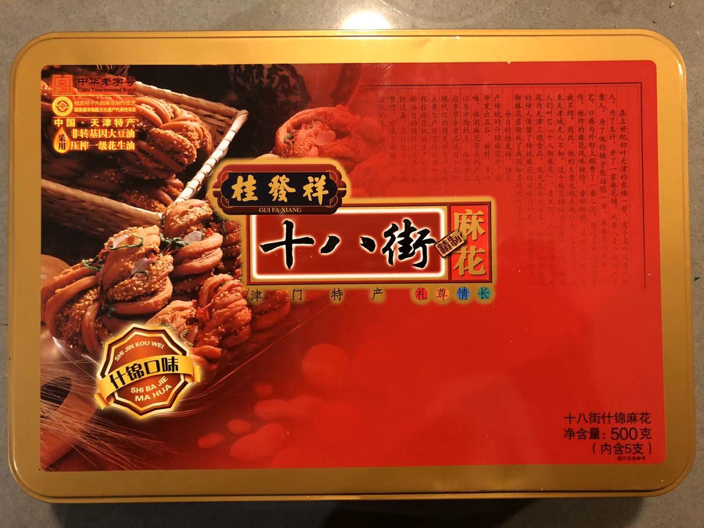 Photo of Mahua from Guifaxiang 18th Street.